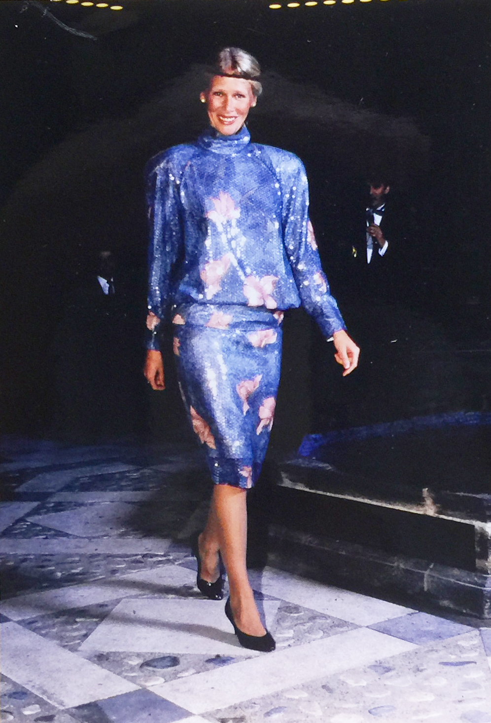 Dress designed by the Norwegian designer Lise Skjåk Bræk